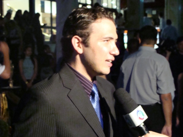 Interview